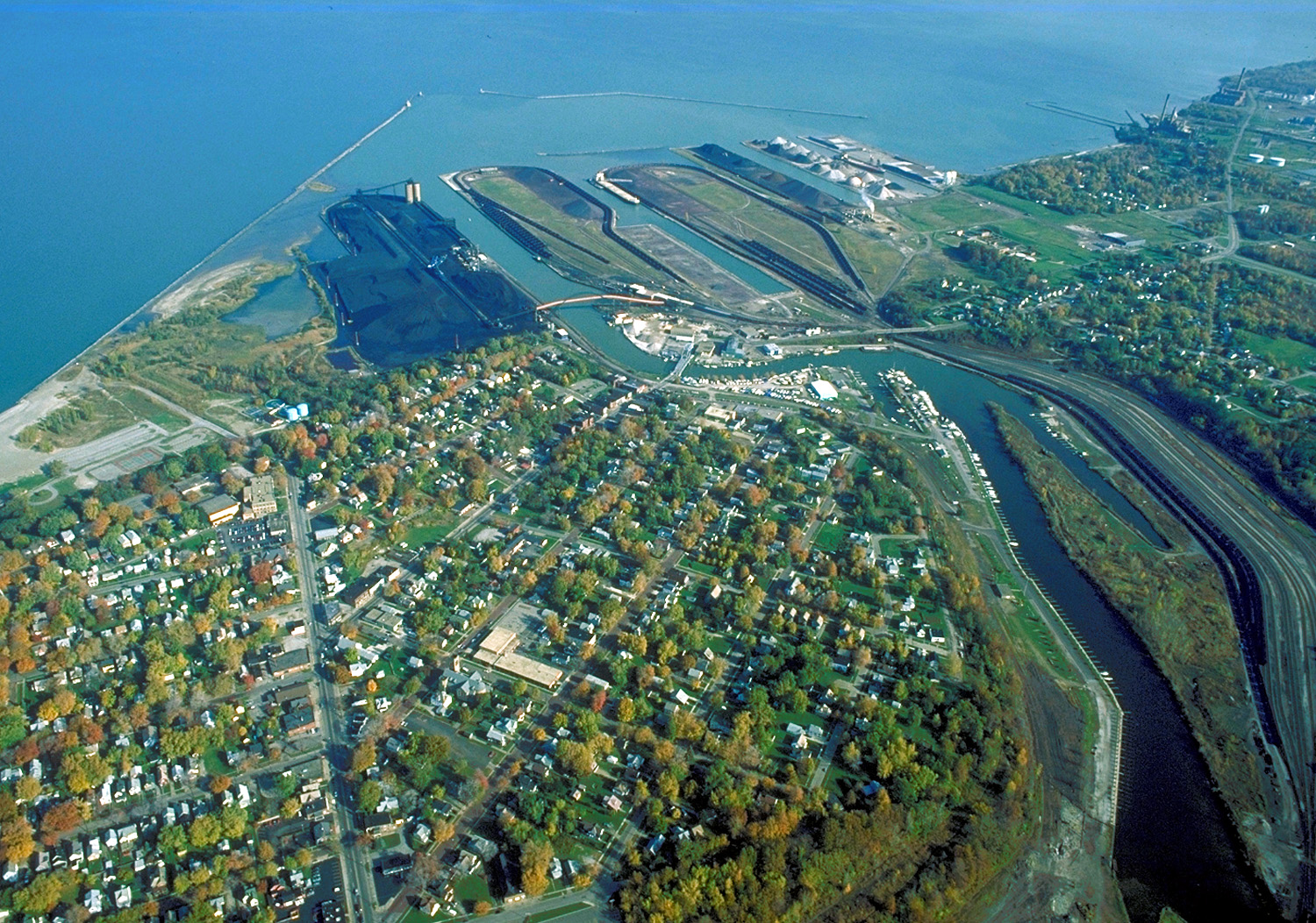 Aerial view of the port at Ashtabula, Ohio, USA. The city is a major port for loading coal from trains onto ships. View is to the northeast over Lake Erie.